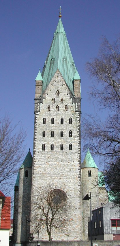 Paderborn, Germany: Western tower of Paderborn Cathedral